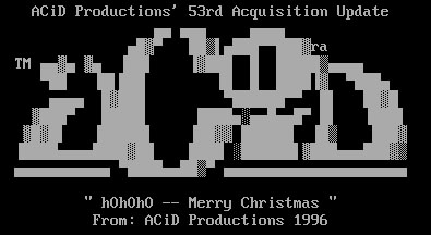 ANSI art from “ACiD Productions”